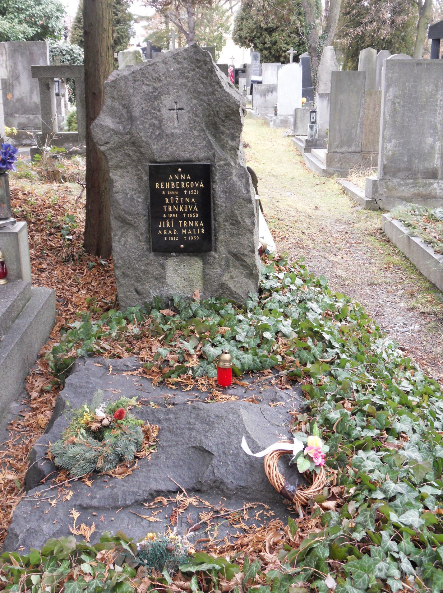 Honorary grave of Czech puppet maker, illustrator, motion-picture animator and film director Jiří Trnka at the Central Cemetery in Pilsen, Czech Republic